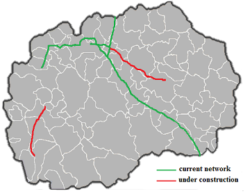 Macedonian highway map 2016